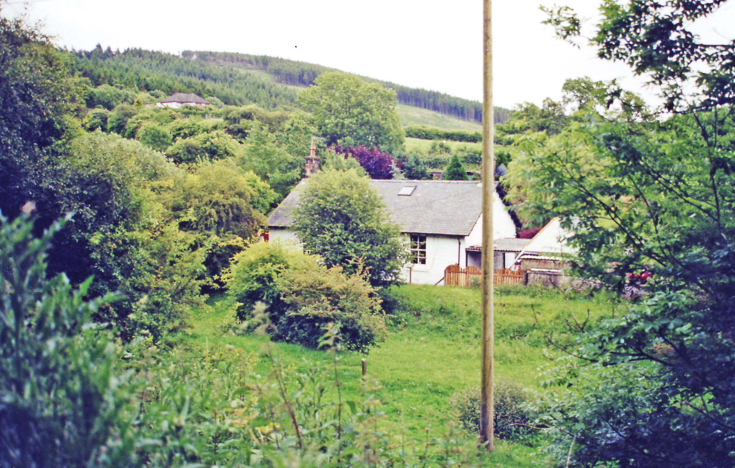 Lochanhead: site/remains of station, 2000. View southward. The former 'Ports Line', ex-G&SWR section, Dumfries (to left) - Castle Douglas), of the (Carlisle) - Dumfries - Stranraer main line, passed through here until closed 14/6/65. Lochanhead station was closed to passengers 25/9/39, to goods 5/47.